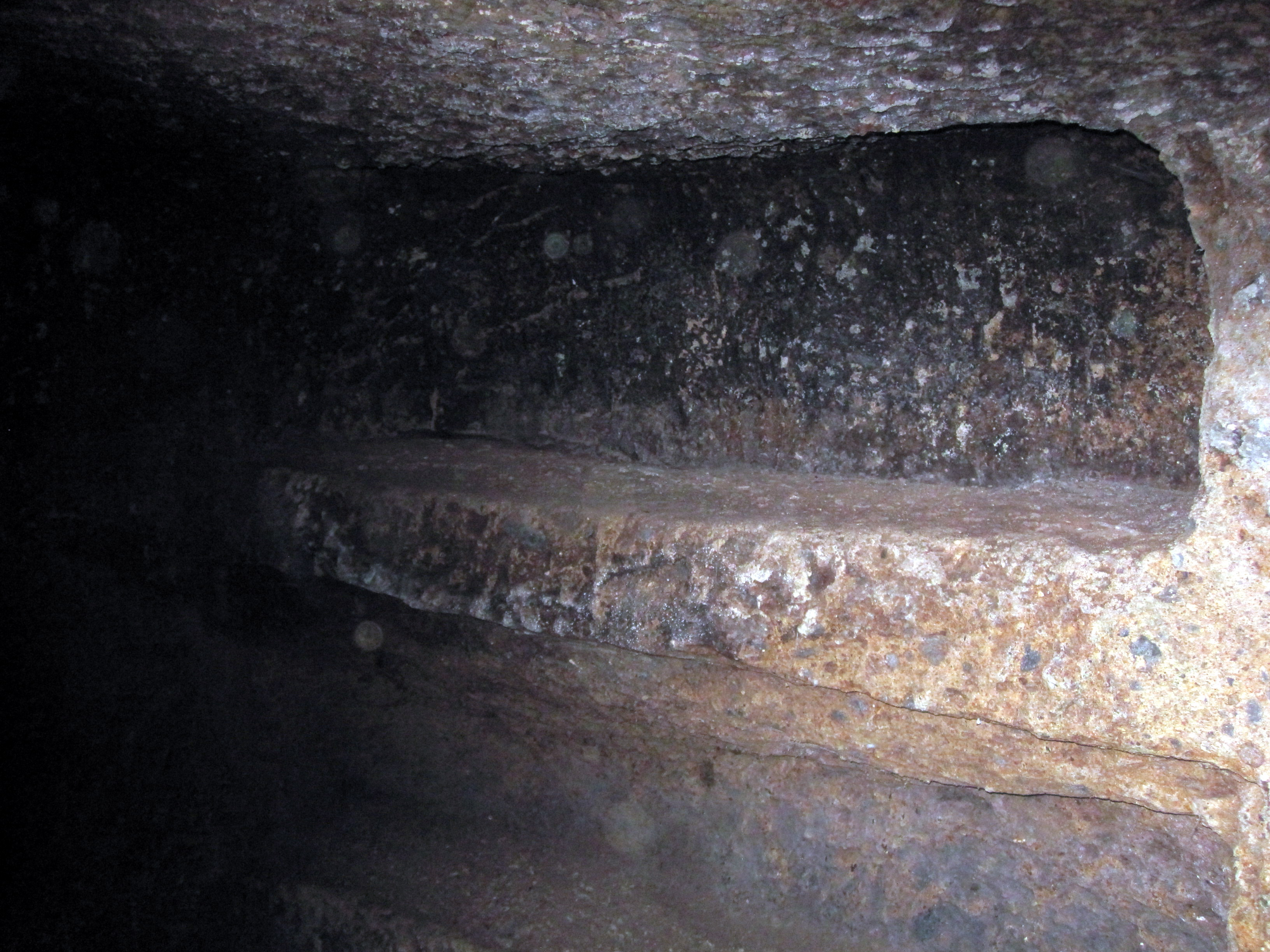 Vue de l'intérieur